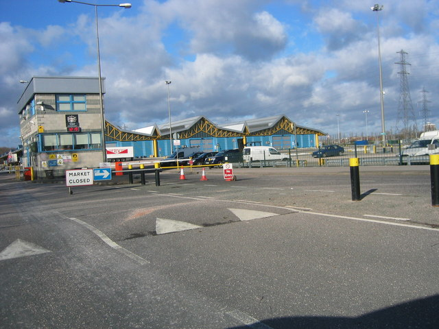 New Spitalfields Market on a Sunday Morning This is adjacent to the Paralympic arena and facilities.